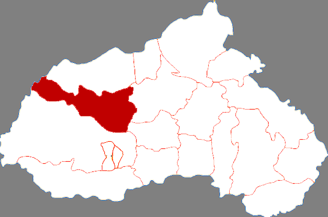 Location of Neiqiu county in Xingtai City, China